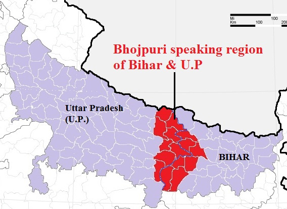 Bhojpuri region of UP & Bihar